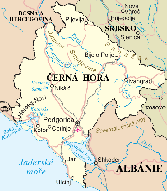 Mapa Černé HoryMap of Montenegro